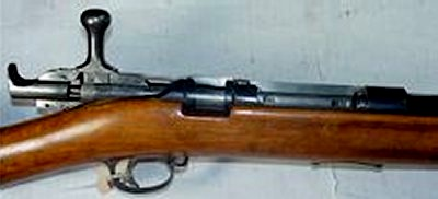 Picture taken by a friend, at uploaders request, for use on Wikipedia, no rights reserved.